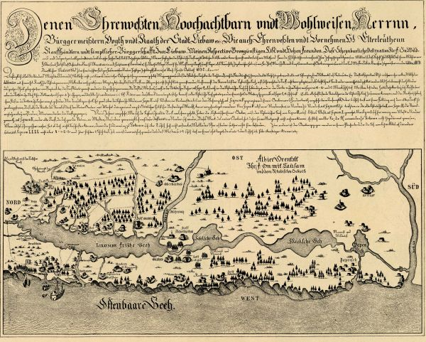 Līva in the year 1581 as seen from the sea.